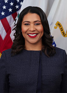 Portrait of Mayor London Breed standing in front of US, California, and San Francisco flags